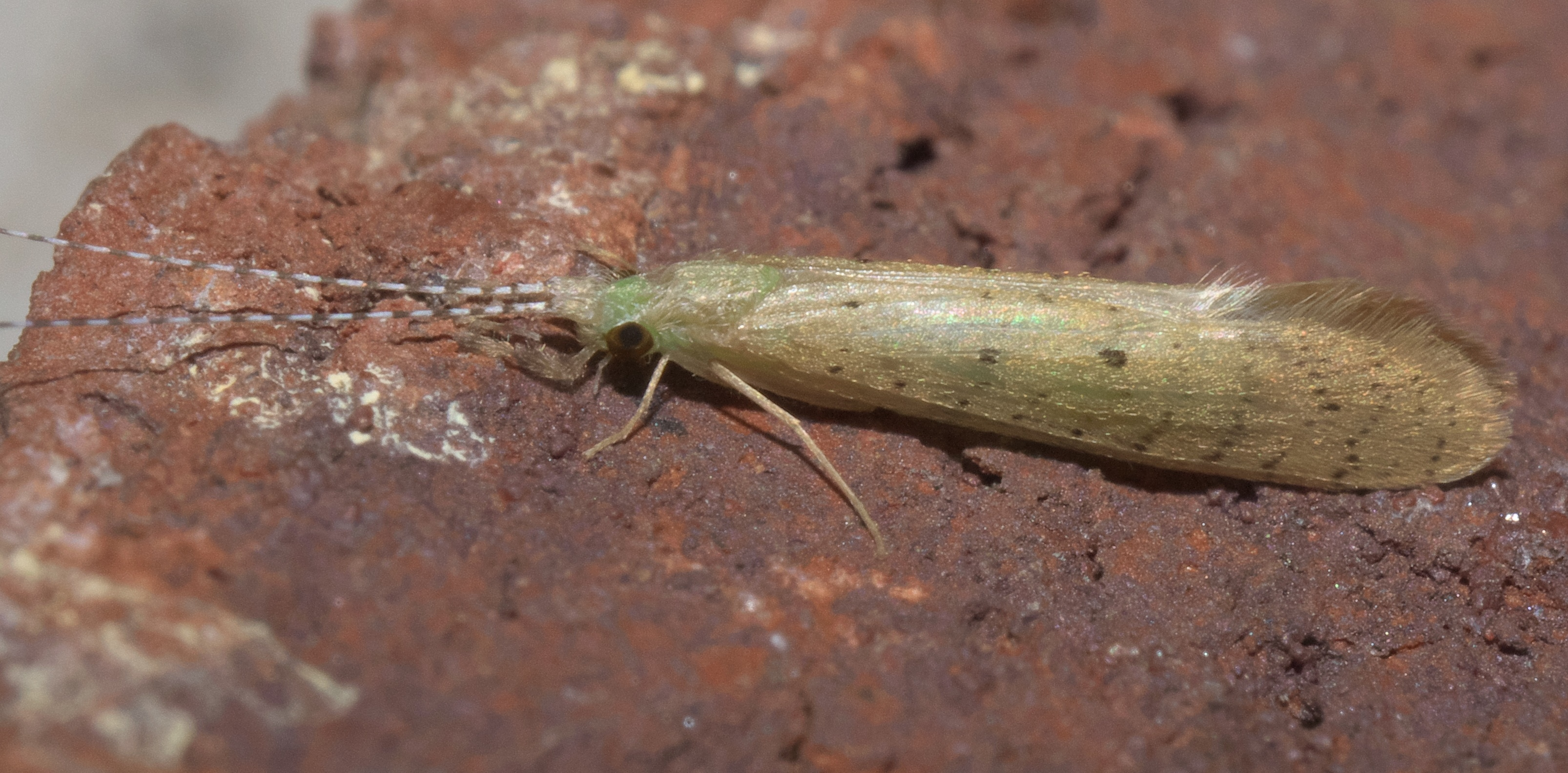 Nectopsyche, white millers, Size: 7.1 mm